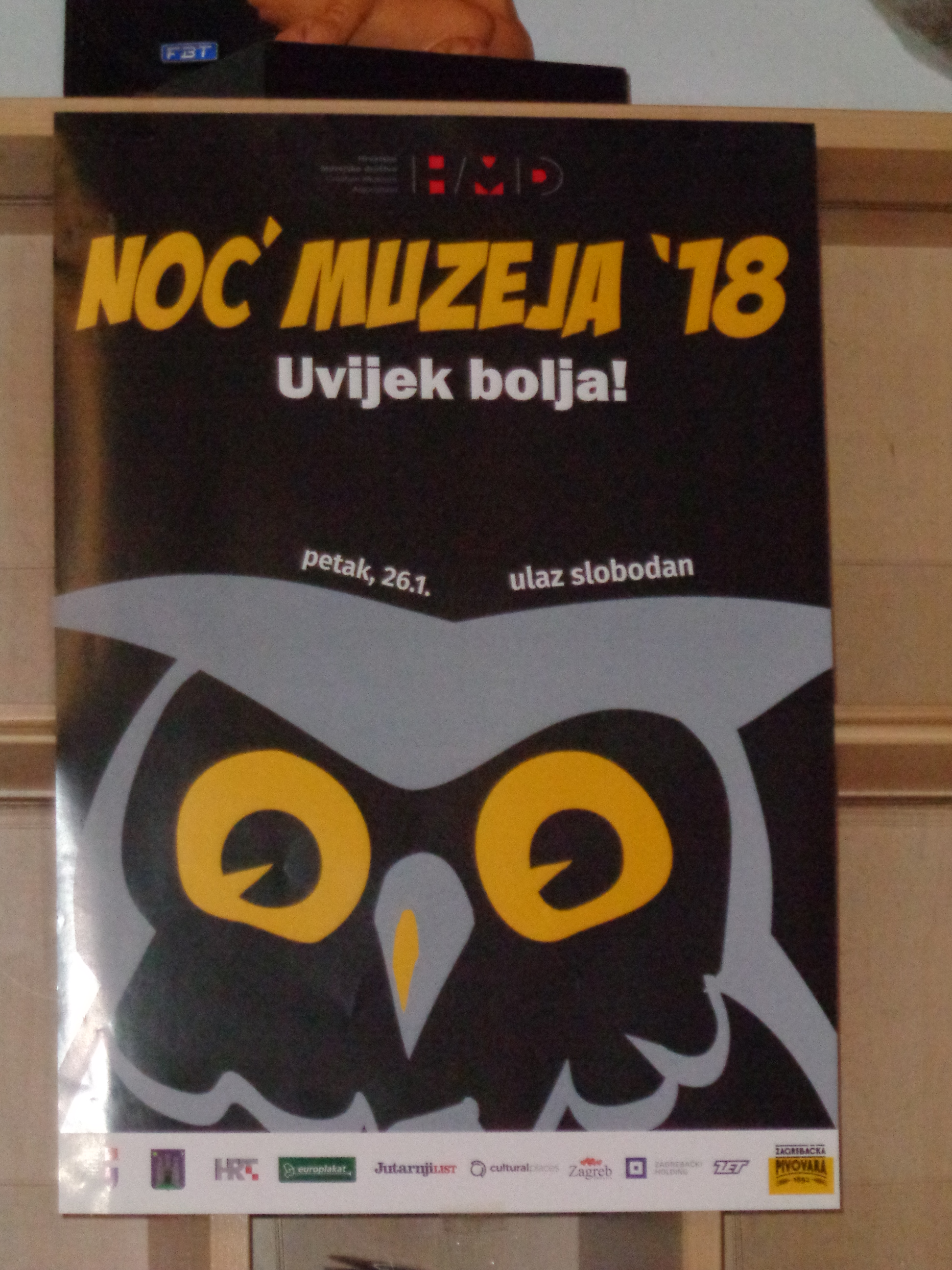 Night of museums 2018. in Čakovec (Croatia) - poster